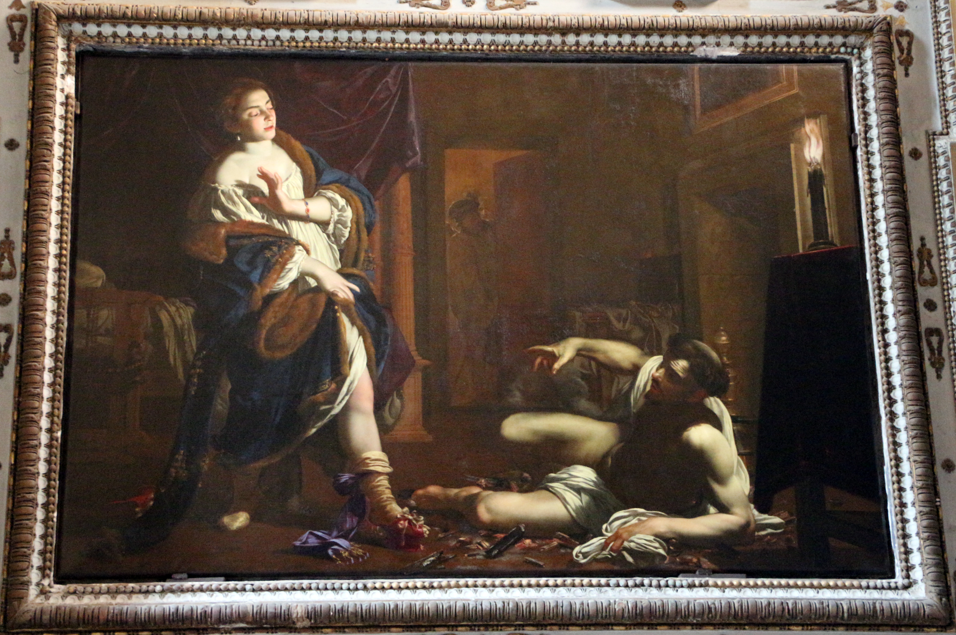 San Lorenzo in Lucina (Rome) - Interior